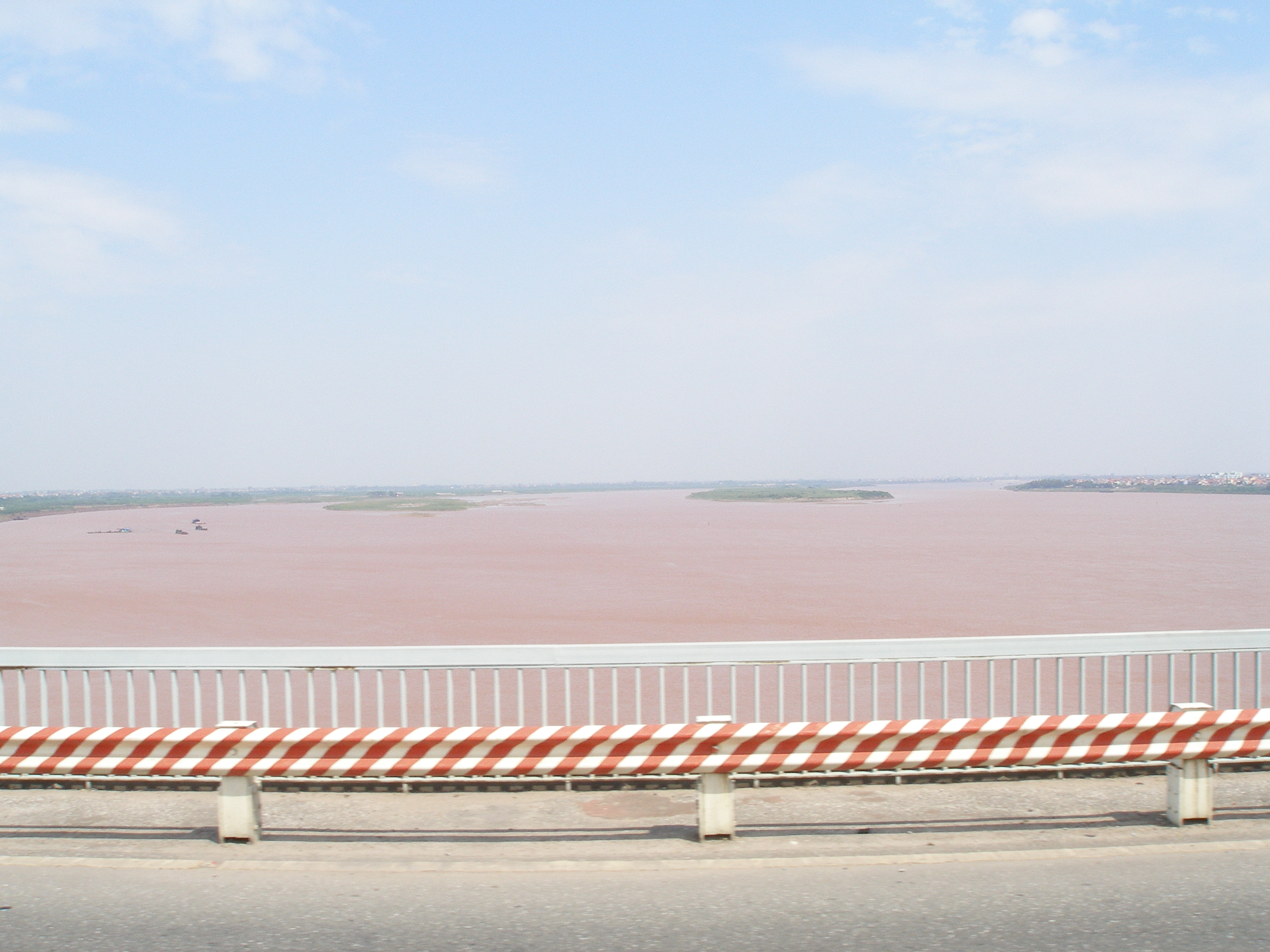 Red River. View from a Chuong Duongbridge in Hanoi